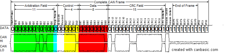 CAN-Bus-frame_in_base_format_without_stuffbits and electrical bus levels